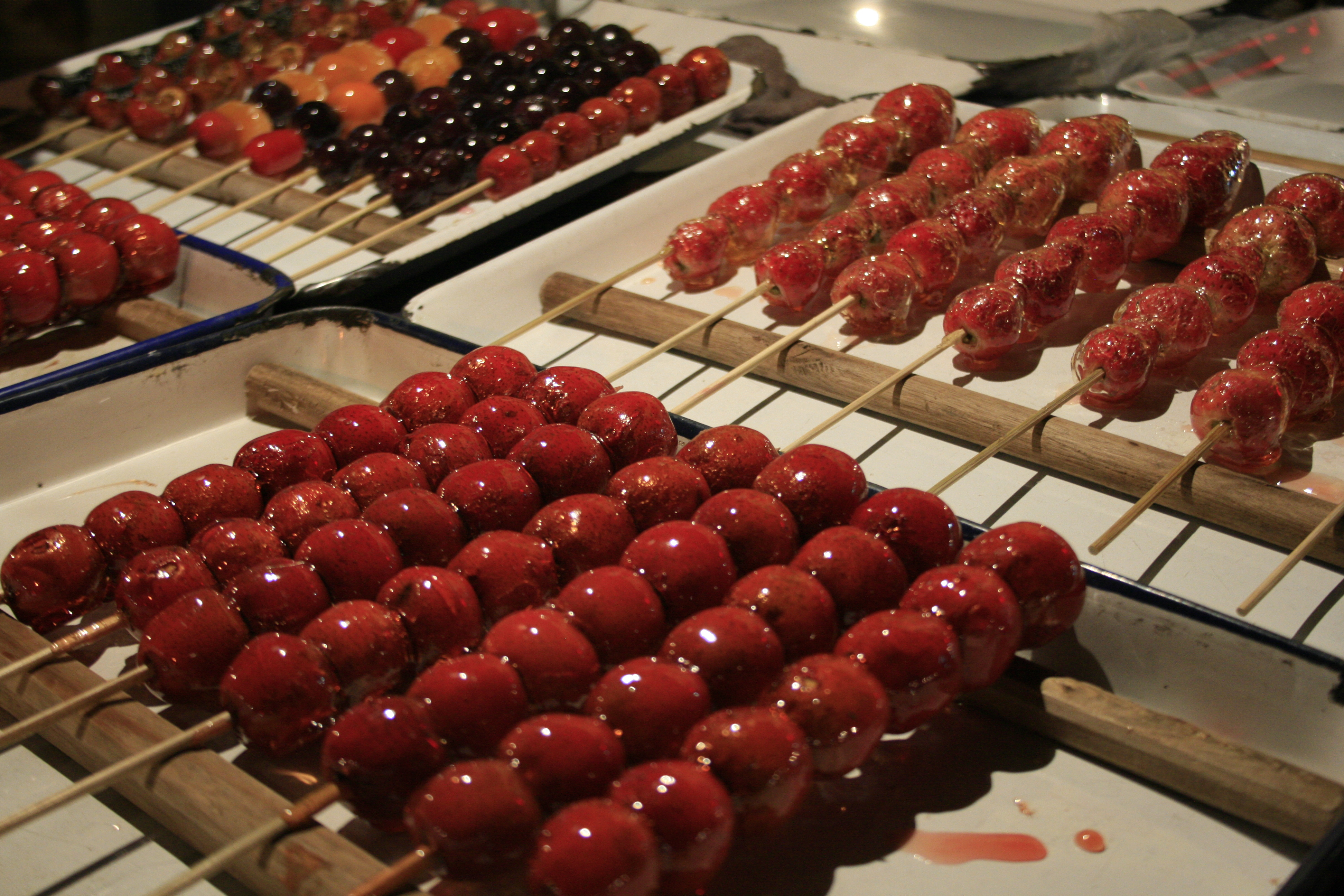 TangHuLu - a Chinese specialty of sugar-coated fruits on a stick.